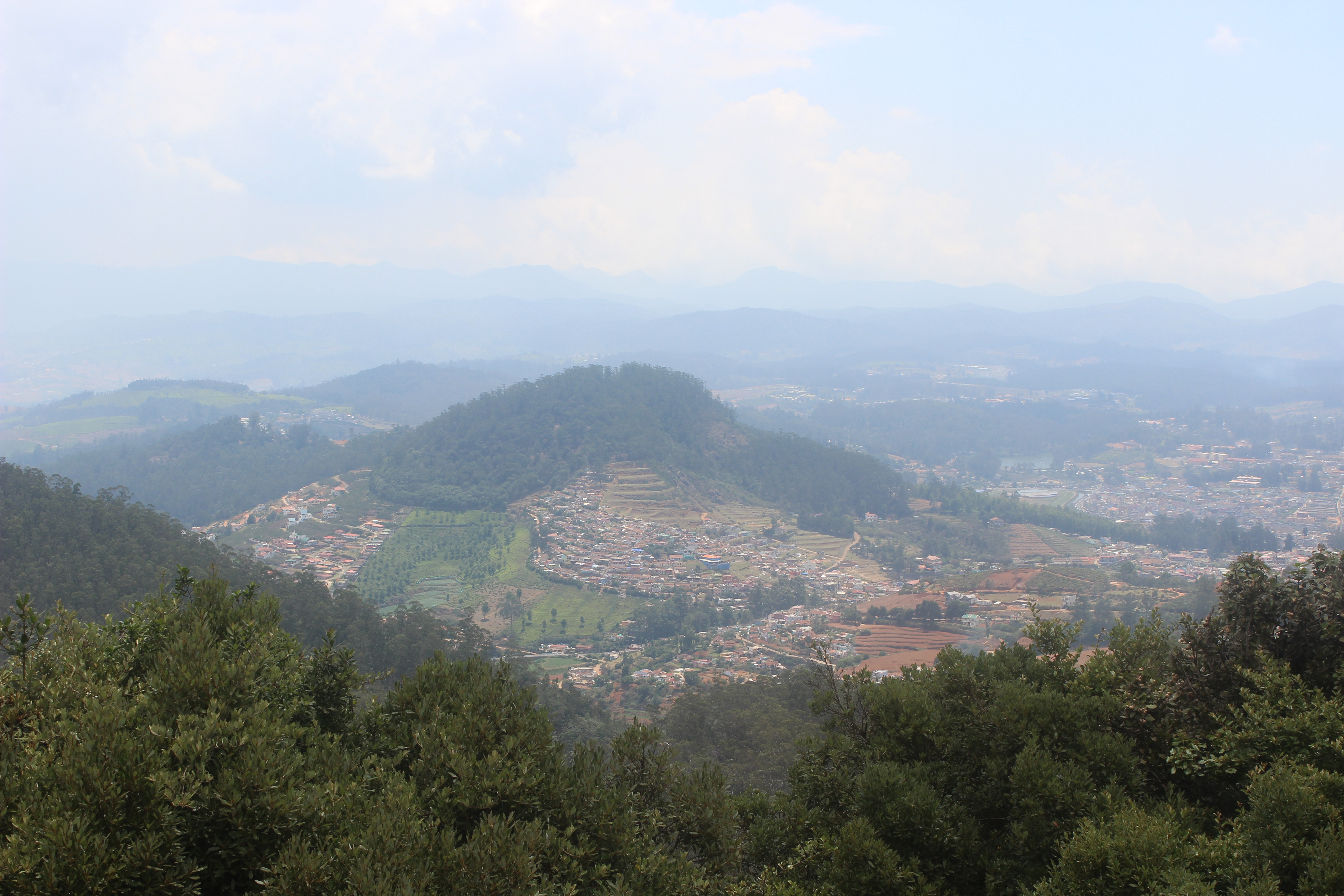 View from the Doddabetta Peak - Ooty,Tamil Nadu.